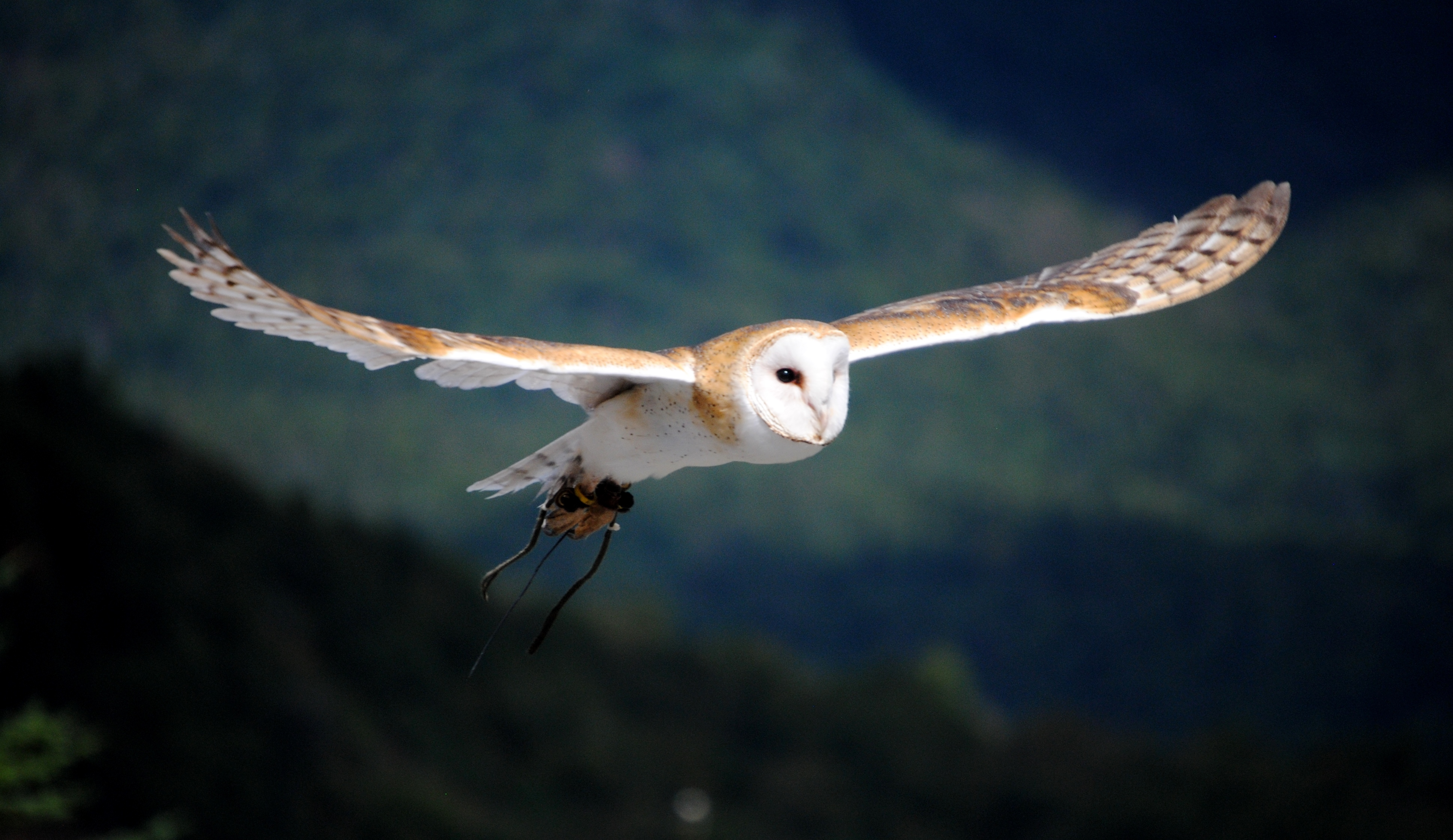 Barn Owl flying